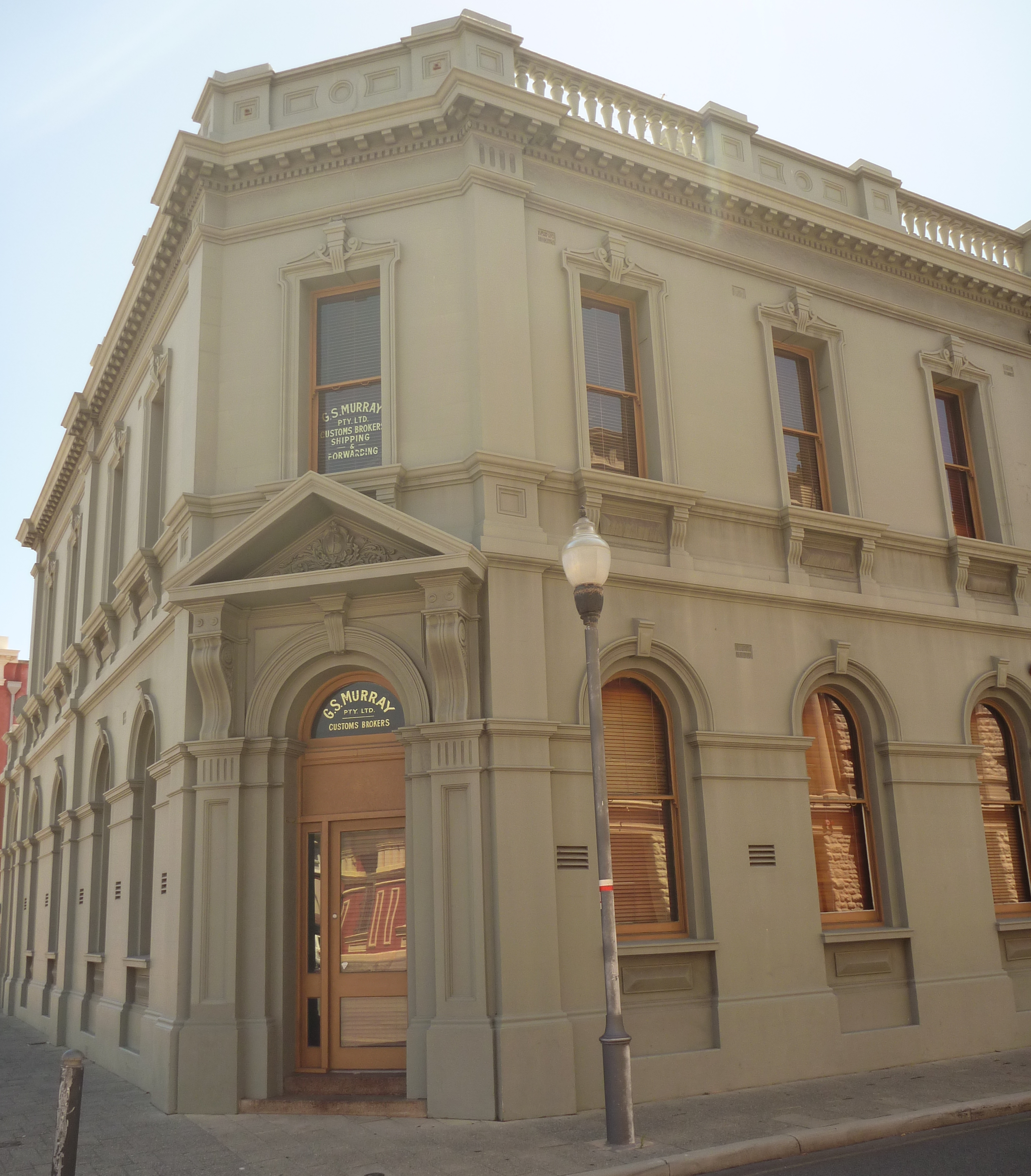 The old Flying Angel Club building, now part of Notre Dame, on the north west corner of Cliff and High streets in Fremantle, Western Australia